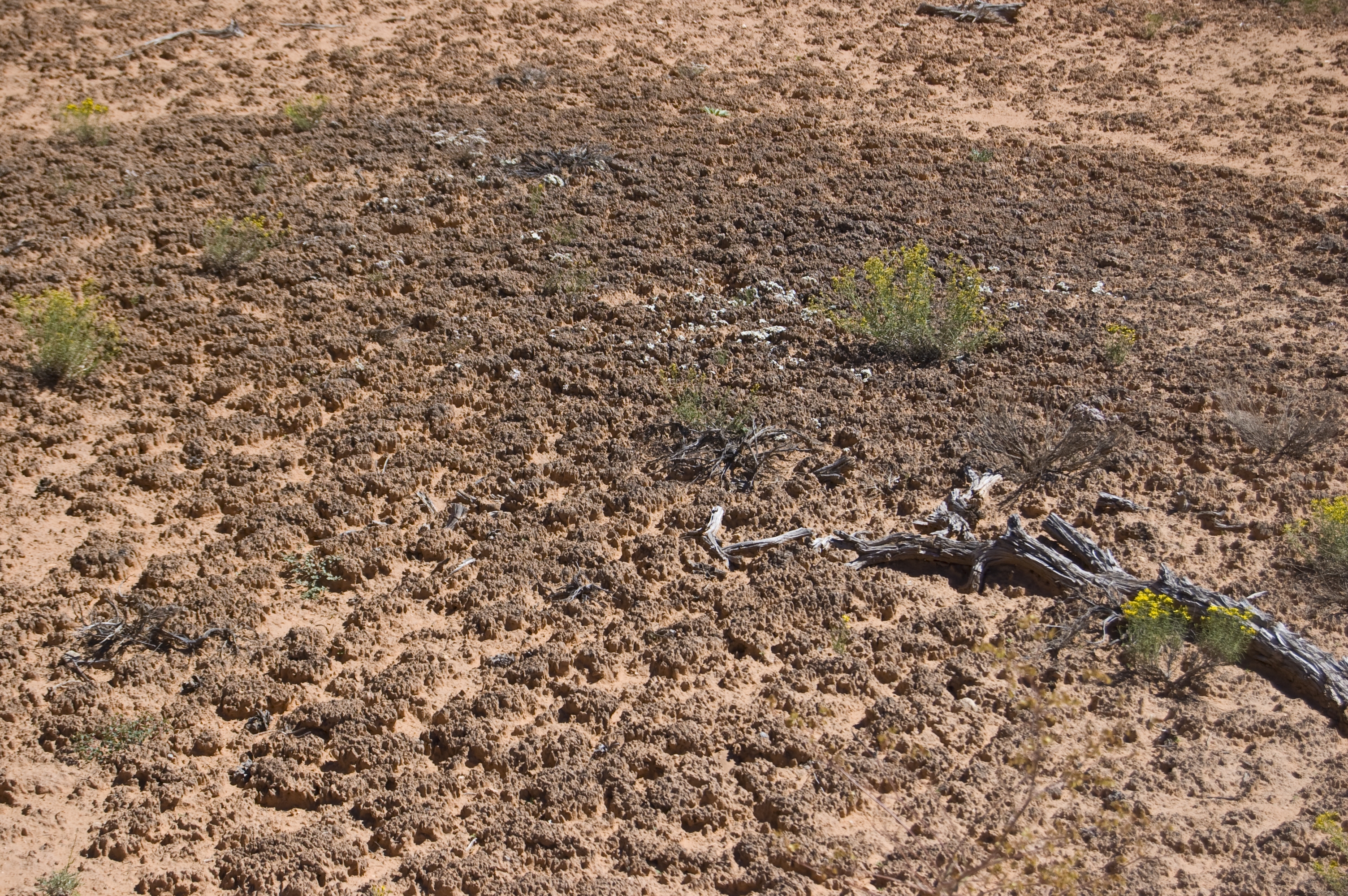 Cryptobiotic soil crust found in Natural Bridges National Monument, Utah.